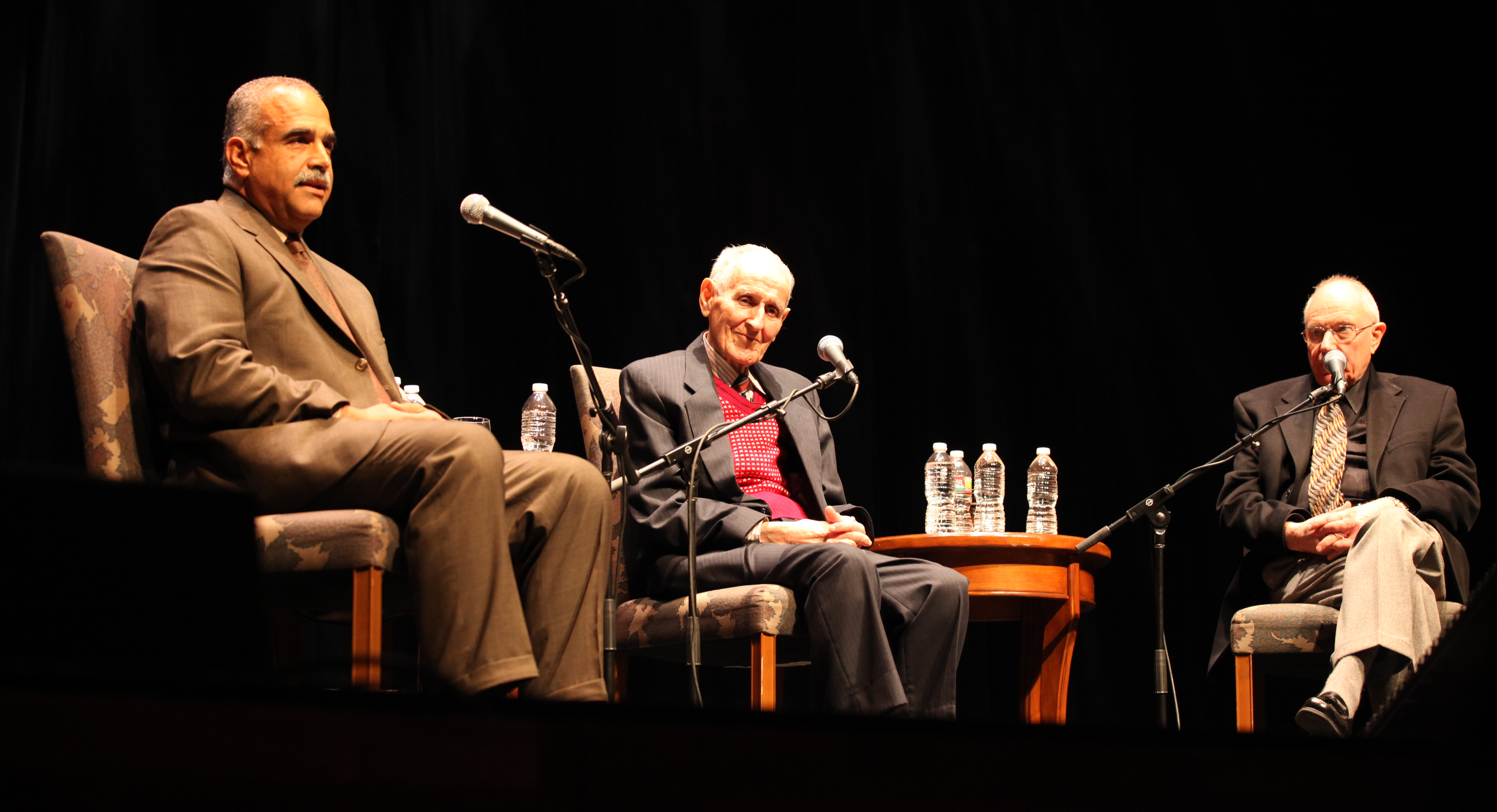 Jack Kevorkian answering questions at UCLA with lawyer Mayer Morganroth (right) and former Foreign Minister of Armenia, Raffi Hovannisian (left)